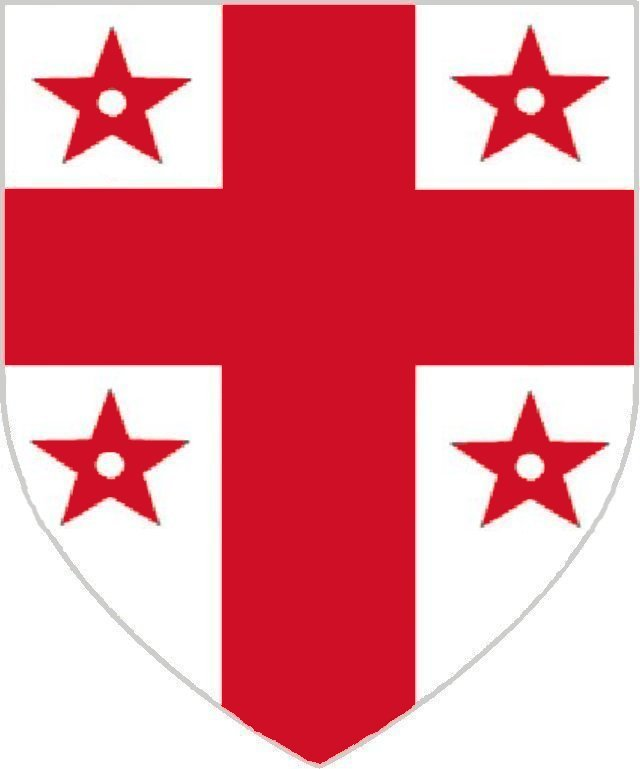 Flamock of Boscarne Arms